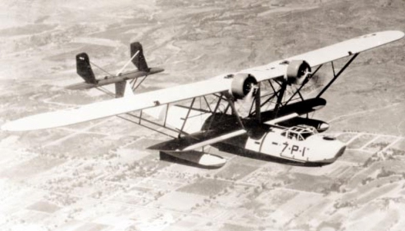 A U.S. Navy Consolidated P2Y-3 of patrol squadron VP-7 in 1936.